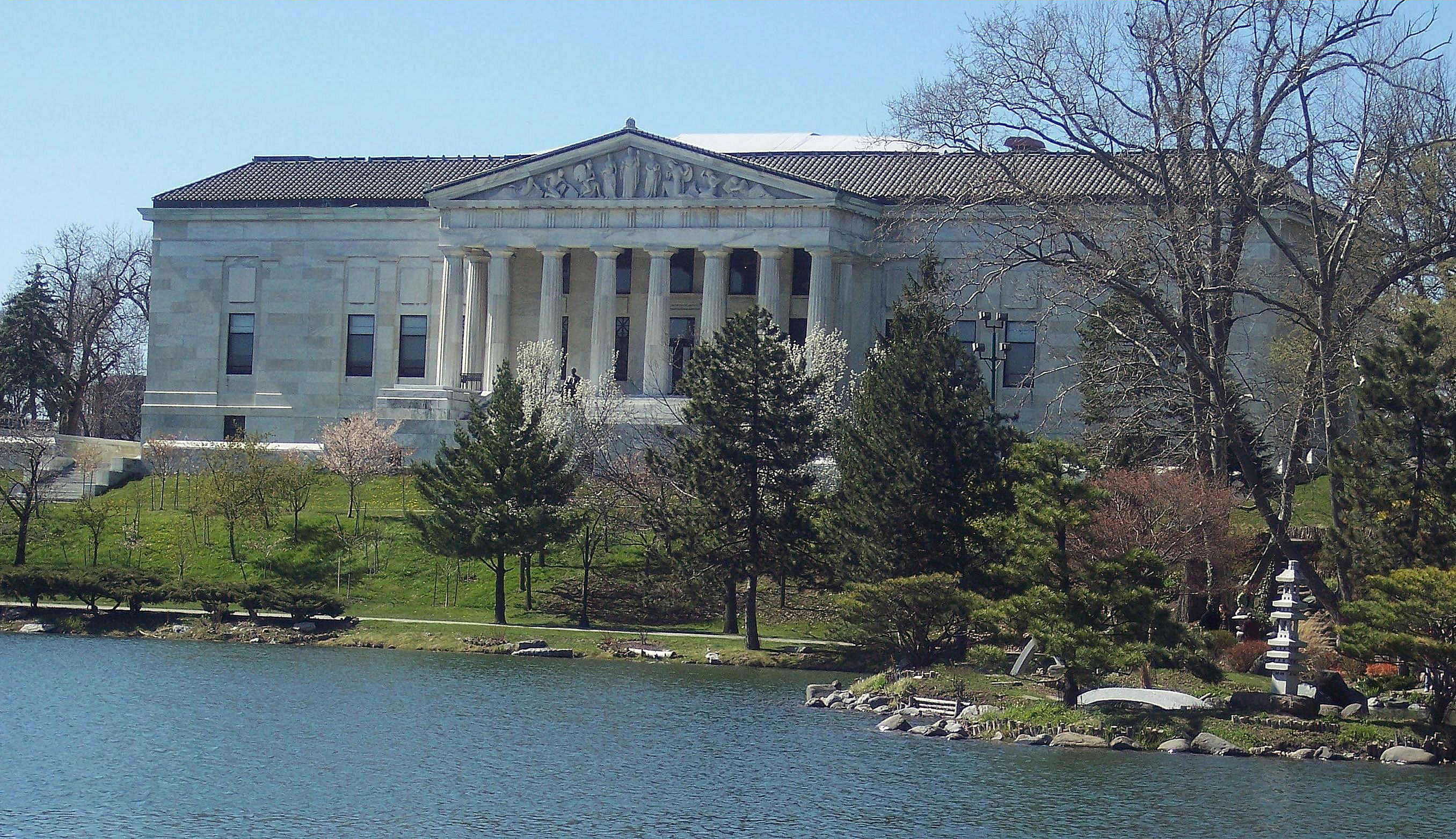 Buffalo and Erie County Historical Society, 25 Nottingham Court Buffalo, NY 14216